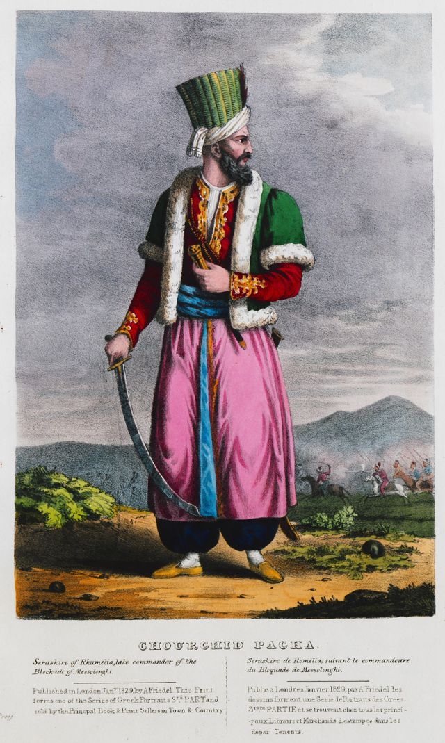 Portrait of Hurshid Pasha.